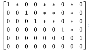 matrix